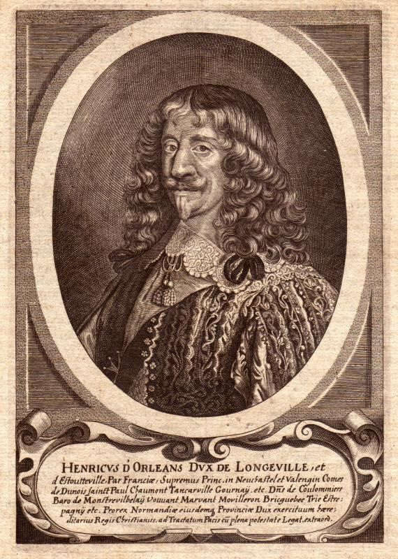 Engraving of Henri d'Orléans, Duke of Longueville